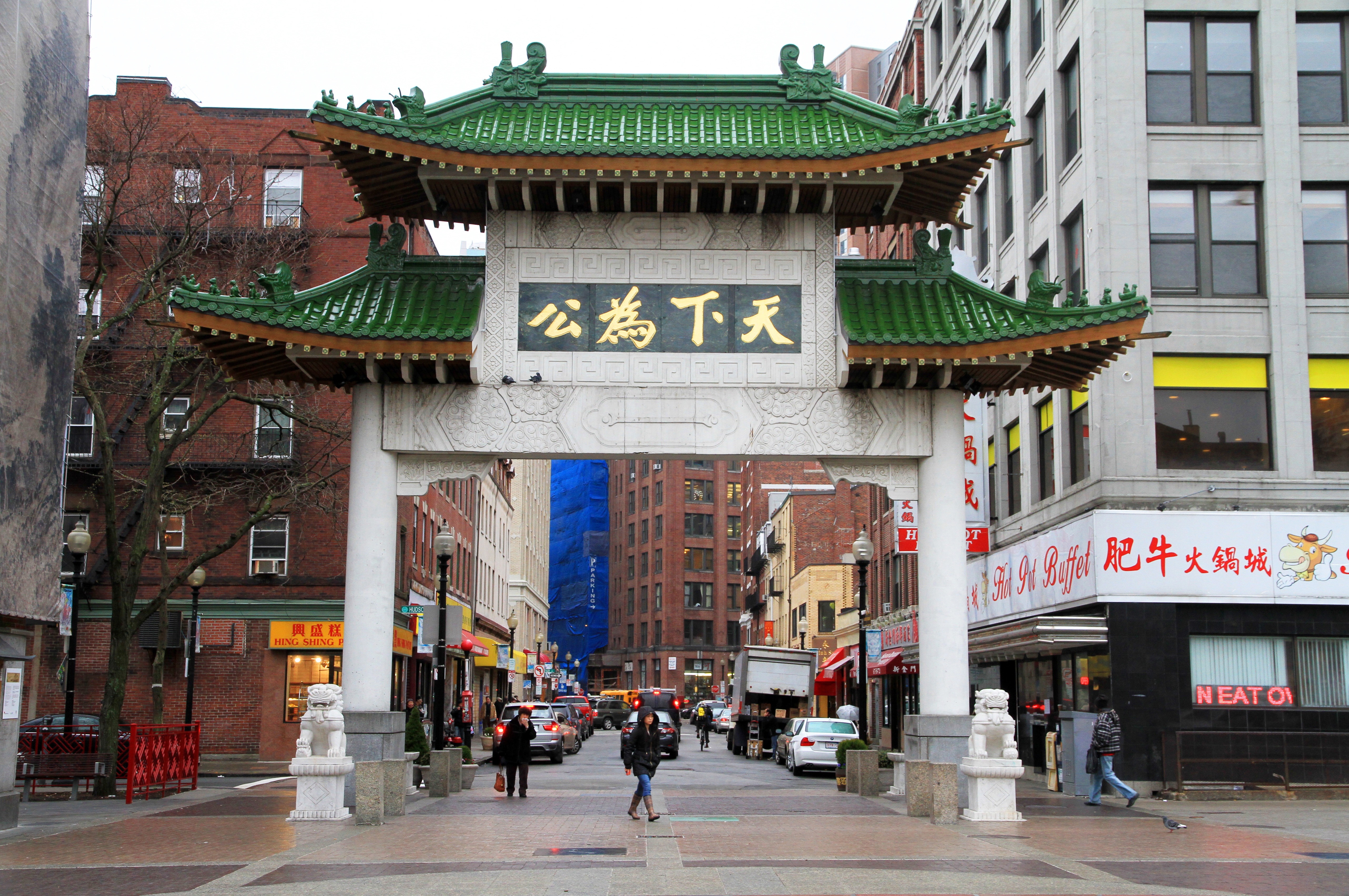 Boston Chinatown. Inscription on gate is from Sun Yat Sen's calligraphy "天下為公" (Everything under the sun for the public)